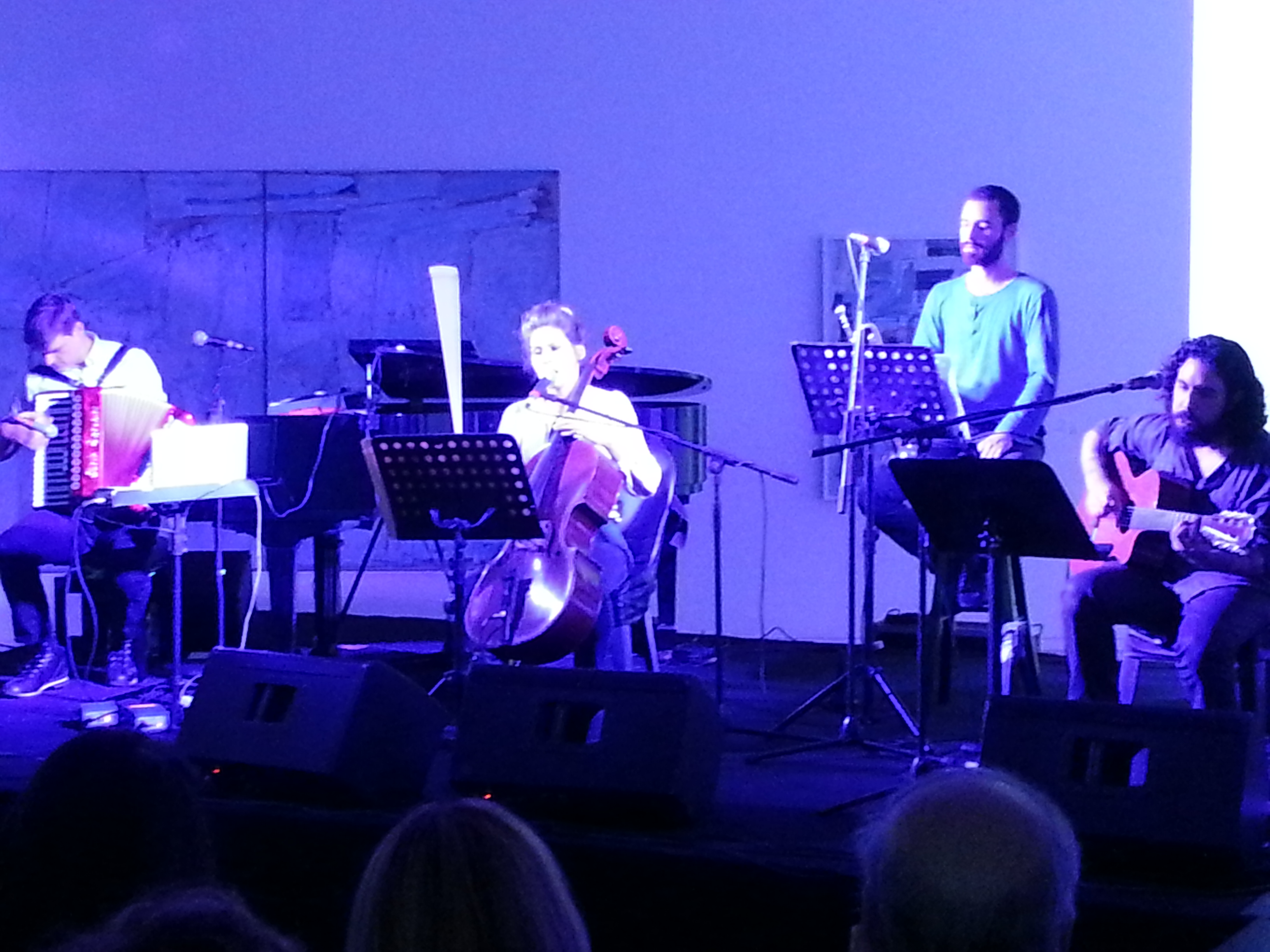 Roy Yarkoni and Karni Postel at Piano Festival 2014 - 01